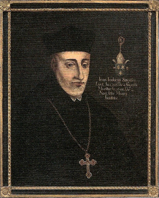 Johann Jodok Singisen, abbot of Muri from 1596 to 1644